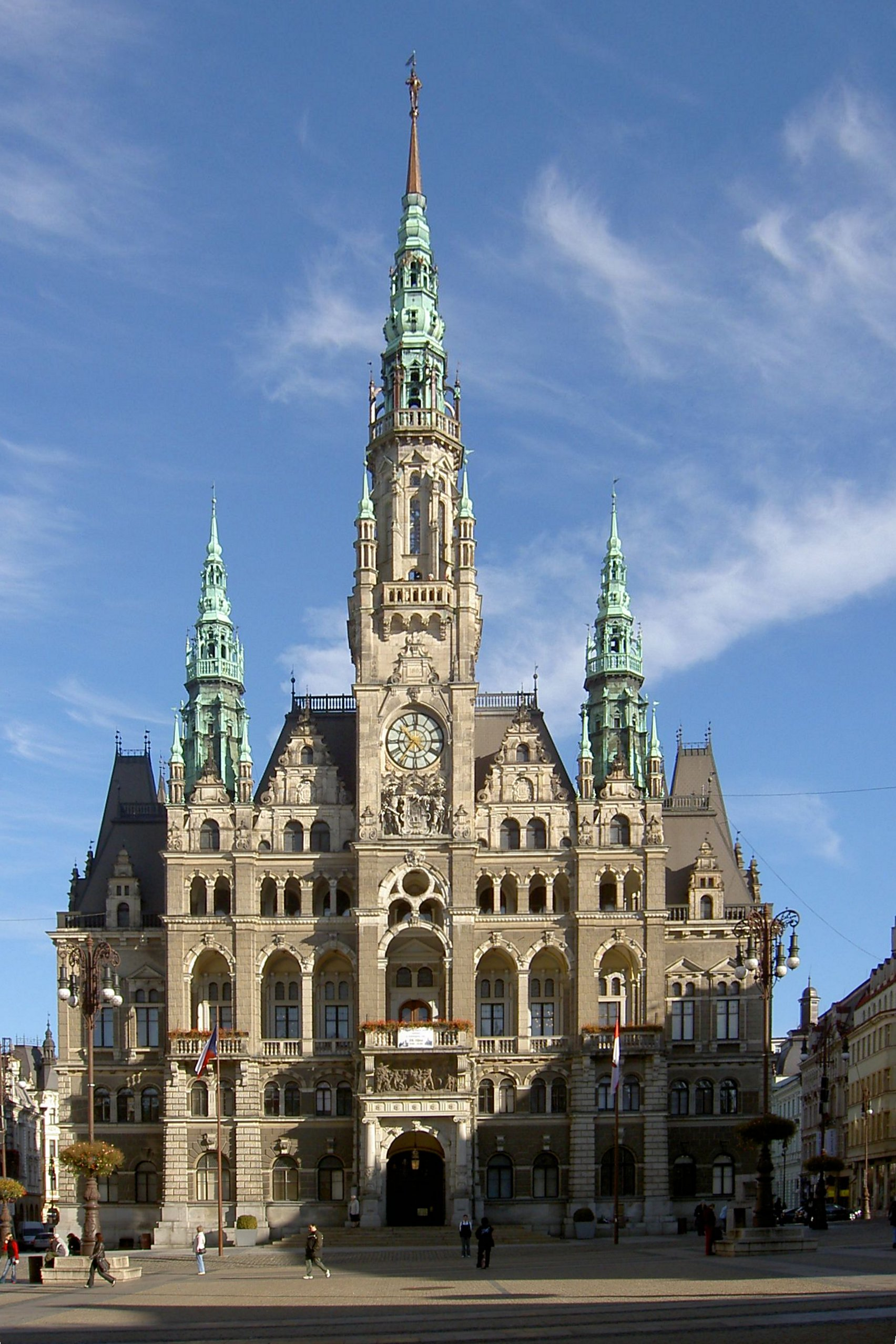 Town Hall in Liberec, Czech Republic